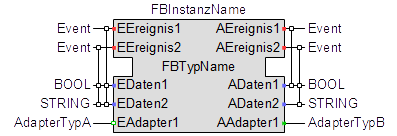 IEC 61499 function block interface